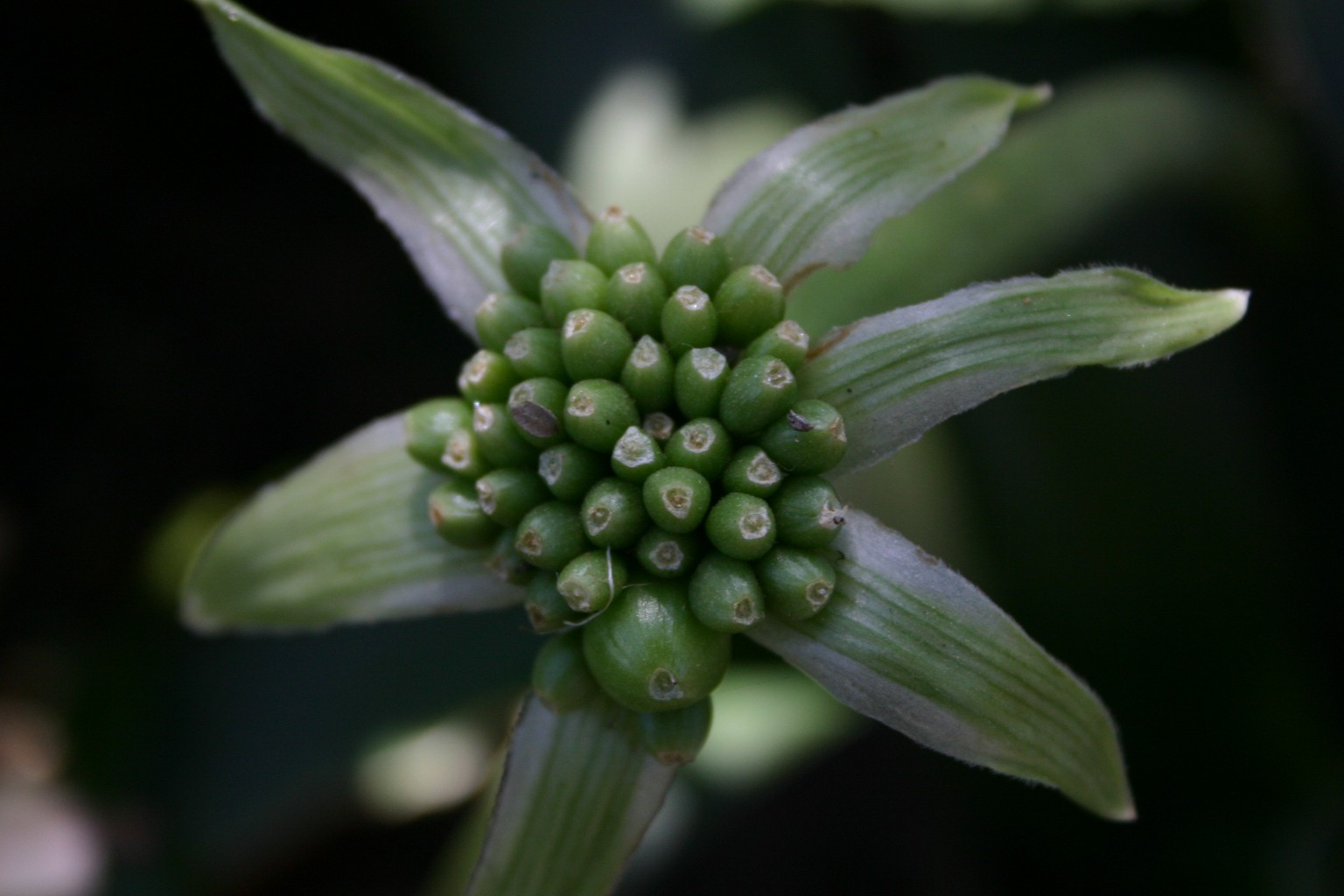 Haemanthus albiflos Jacq. fruits